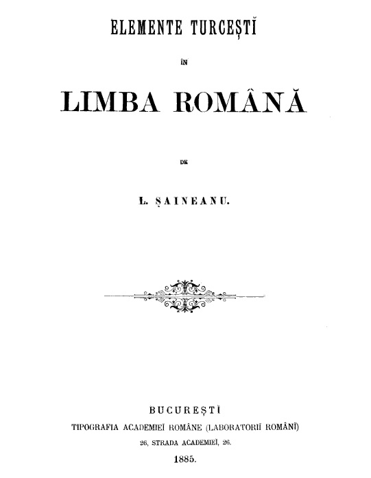 Cover of Elemente turceşti în limba română, a Romanian-language work by the Romanian-born linguist Lazăr Şăineanu, published by Tipografia Academiei Române (Laboratorii Români) in 1885.